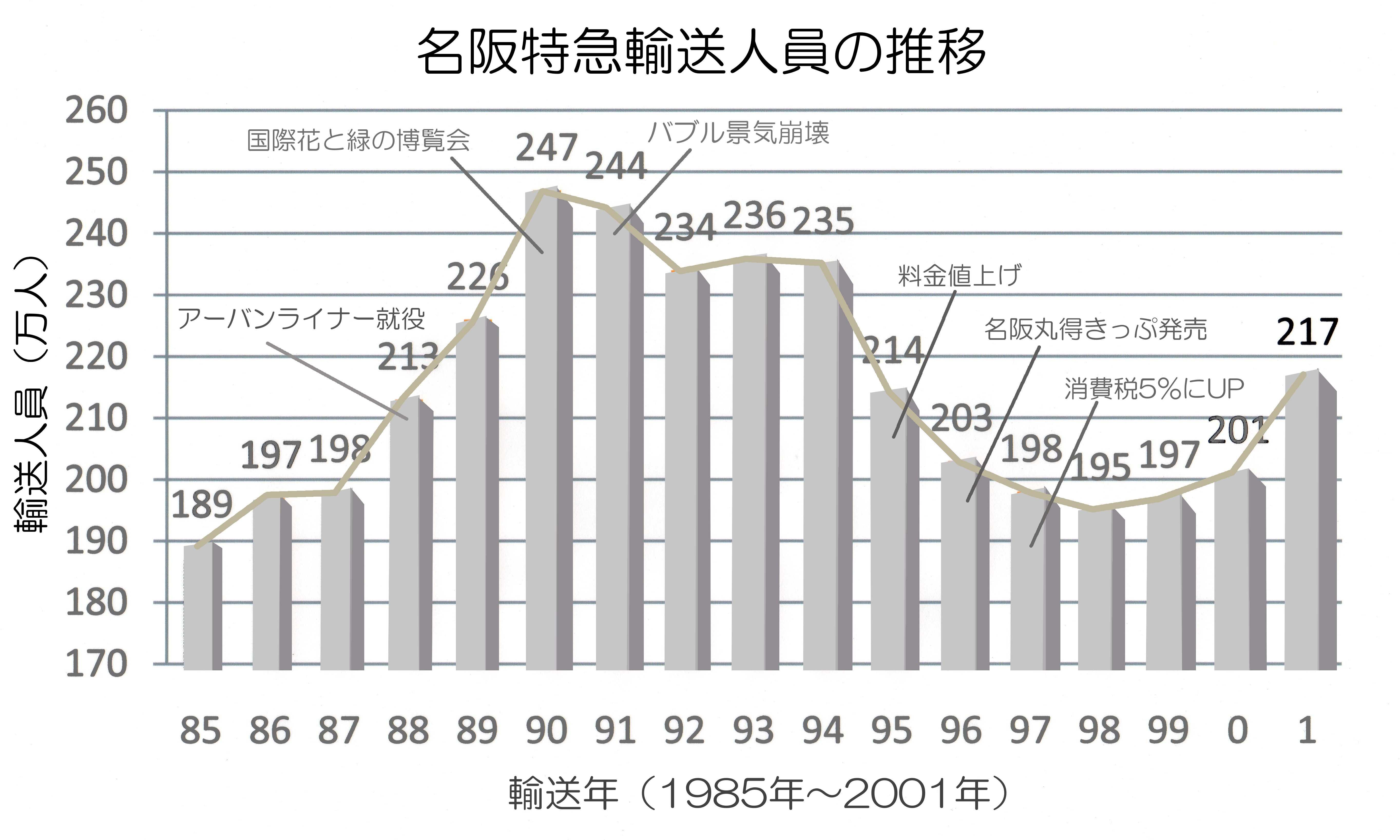 Numbers of passengers transported by the Meihan Tokkyu ("Nagoya-Osaka Express") of Kinki Nippon Railway between 1985 and 2001